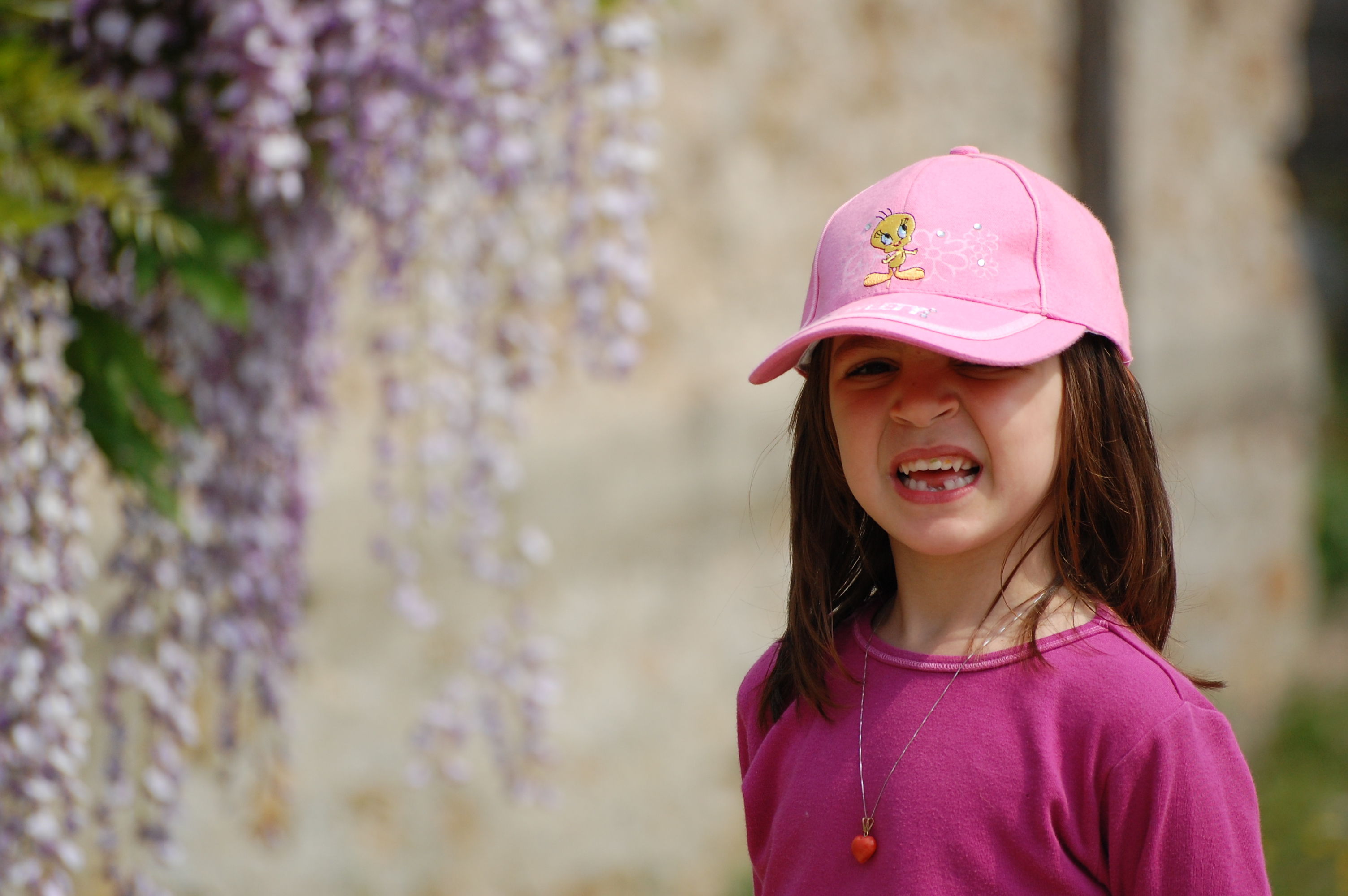 ma pitchoune victoria